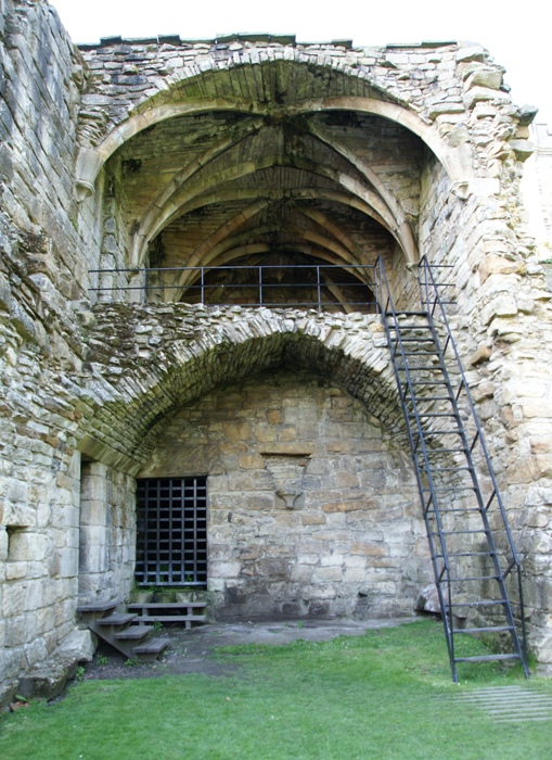 Culross Abbey, Culross, Fife, Scotland - refectory lay brothers (upper part)